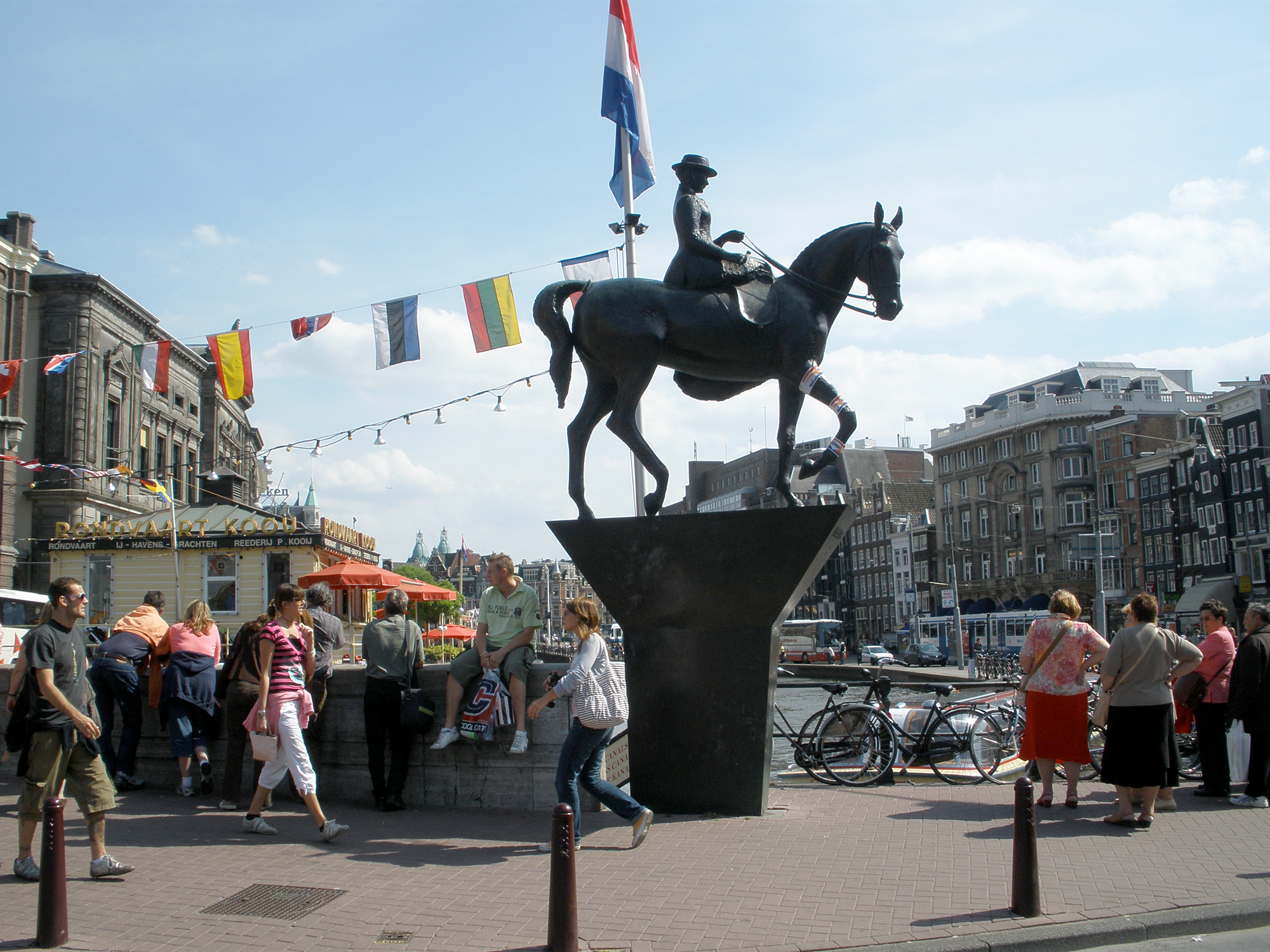 Equestrian statue of Queen Wilhelmina at the intersection of Langebrugsteeg and Rokin in Amsterdam. Tourists are waiting to get on board a canal excursion boat. Note the Allard Pierson Museum in the background on the left.